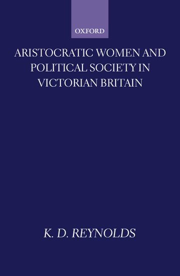 Cover of Aristocratic Women and Political Society in Victorian Britain.